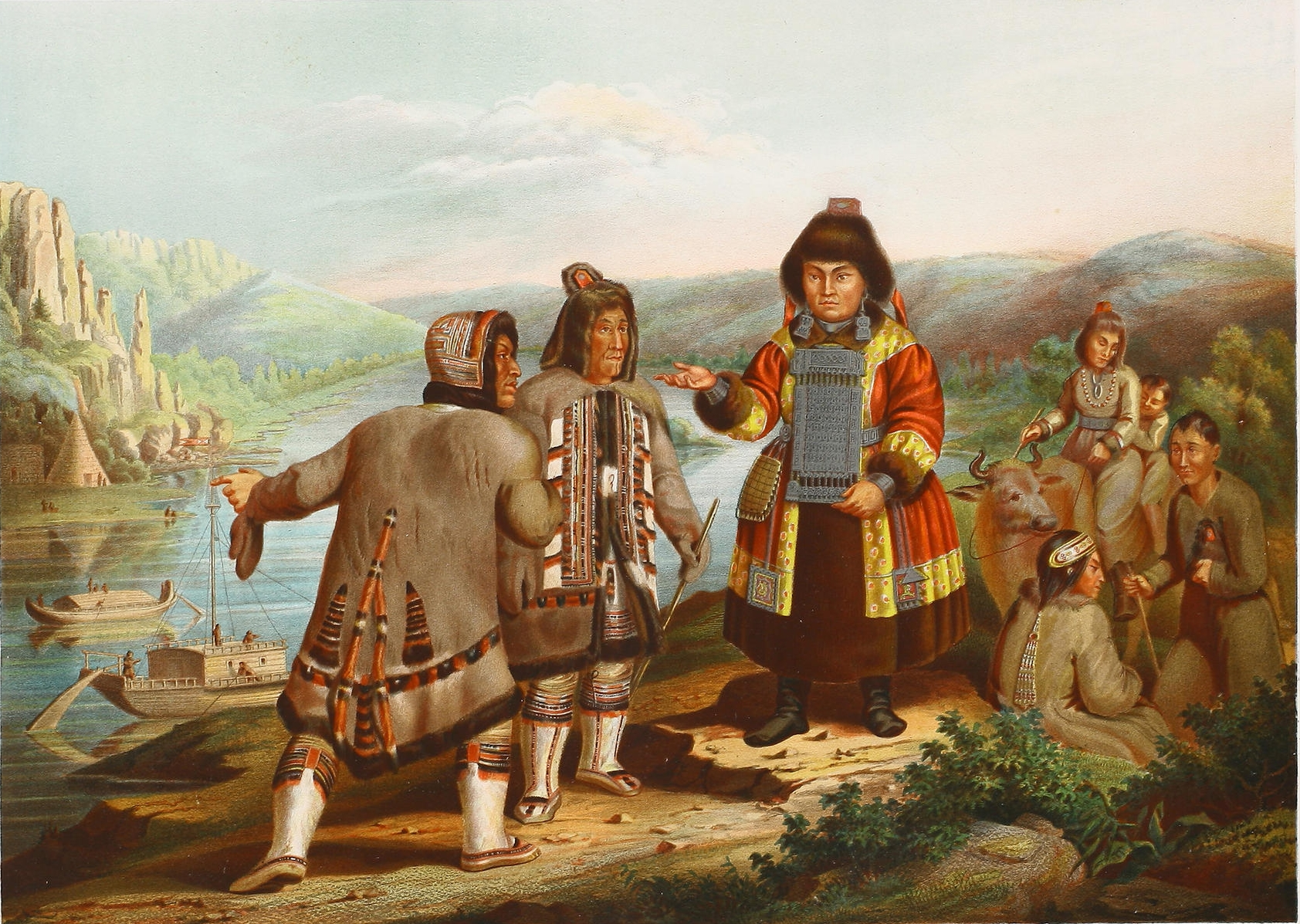 Jakuten